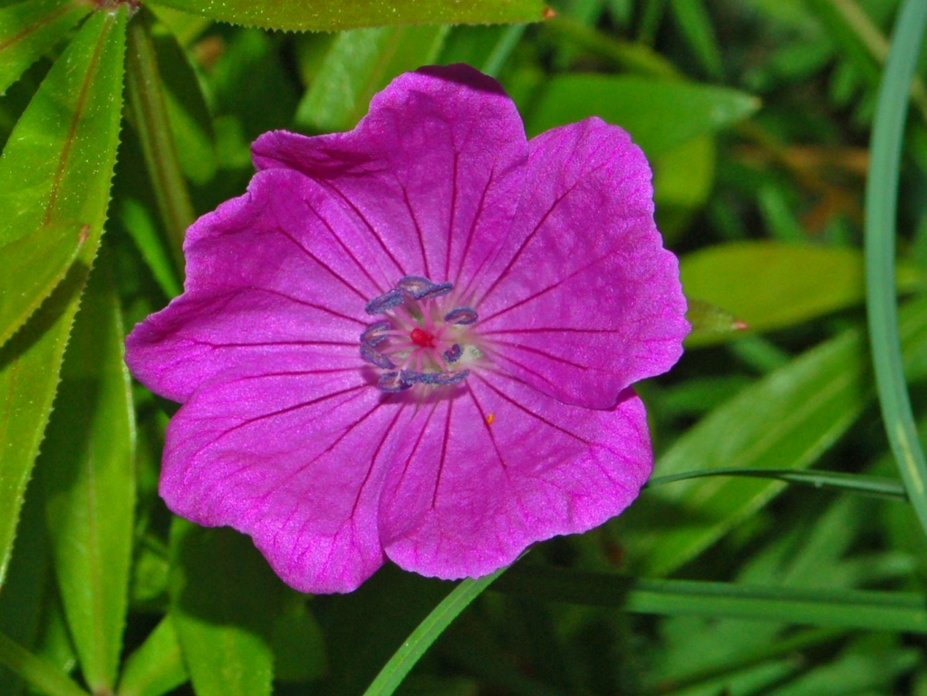 Geranium sanguineum - Val Noci, Genova, Italy